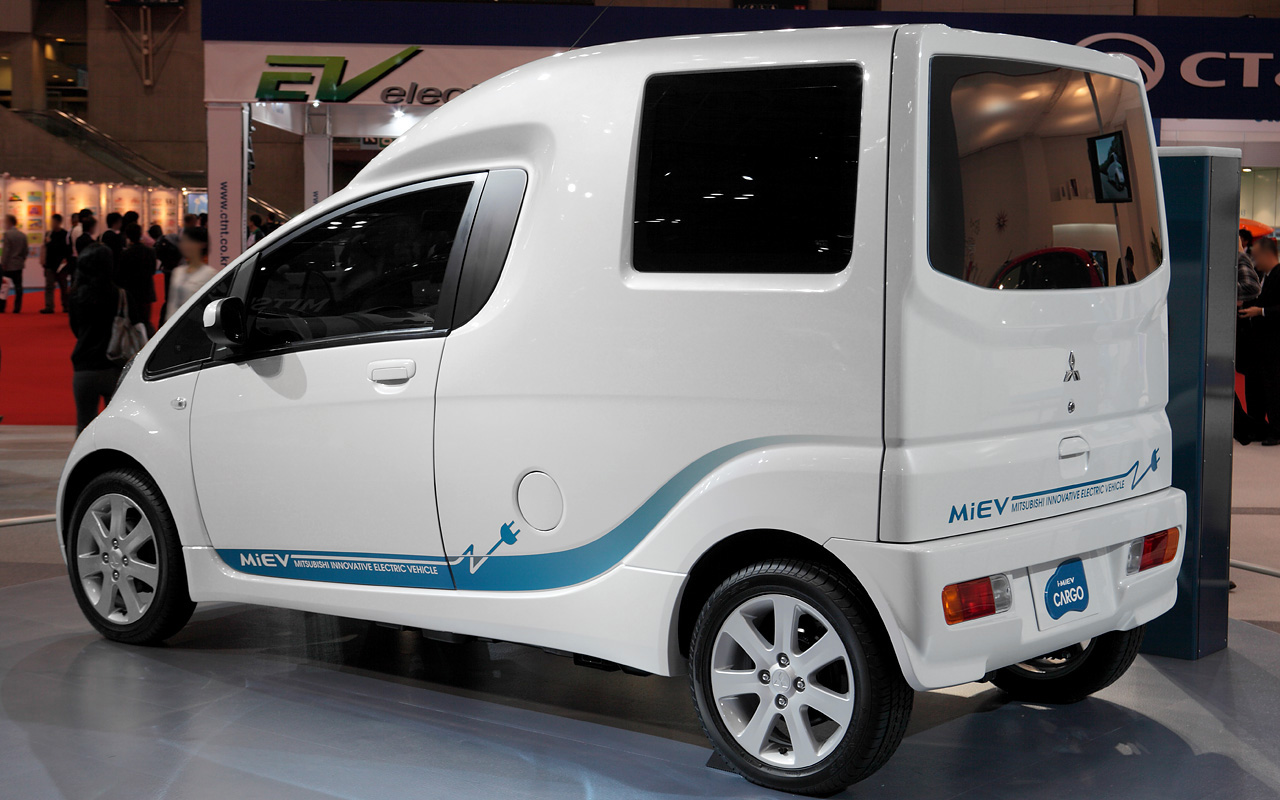 Mitsubishi i MiEV Cargo at 2009 Tokyo Motor Show.